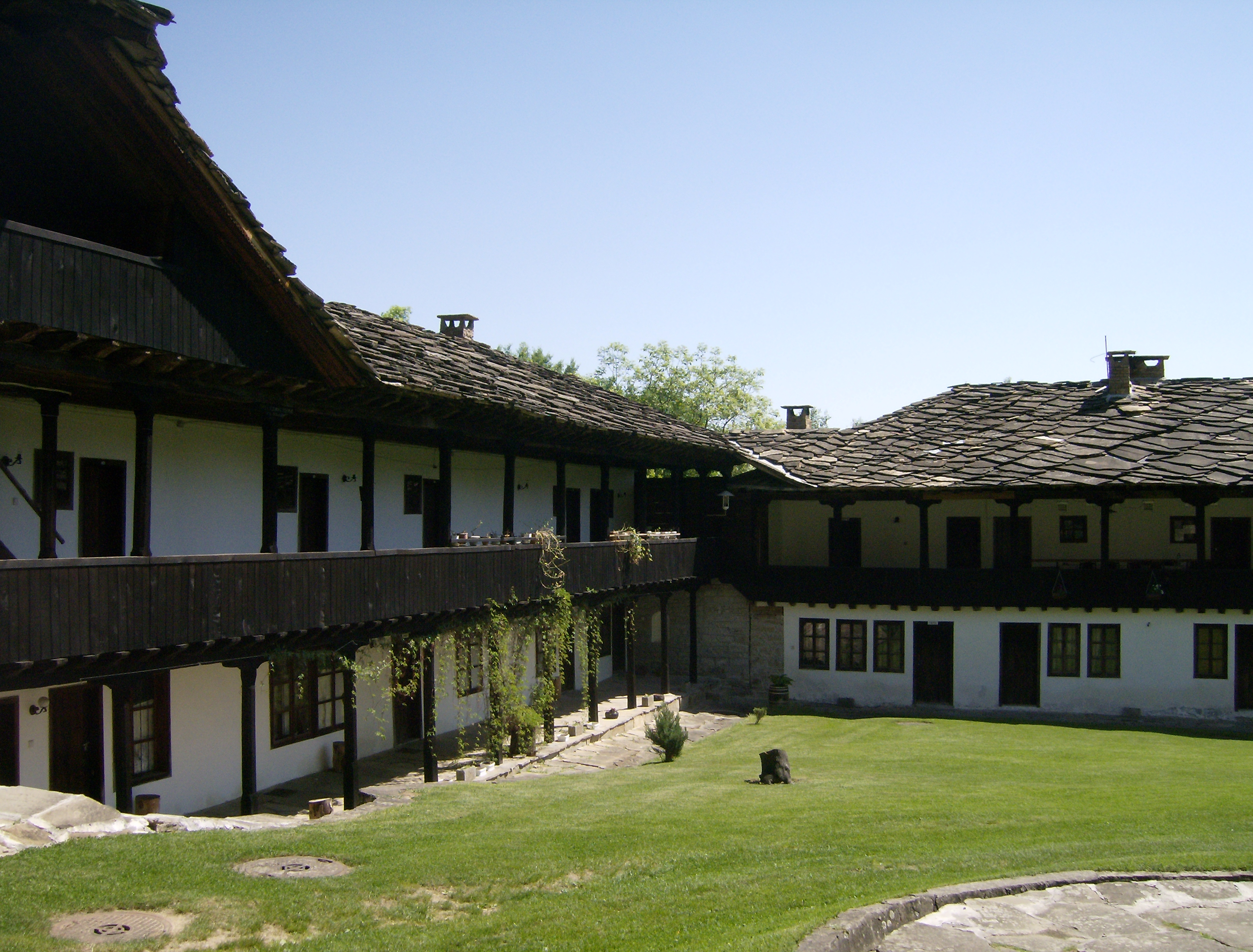 Batoshevo Monastery of Assumption of Mary